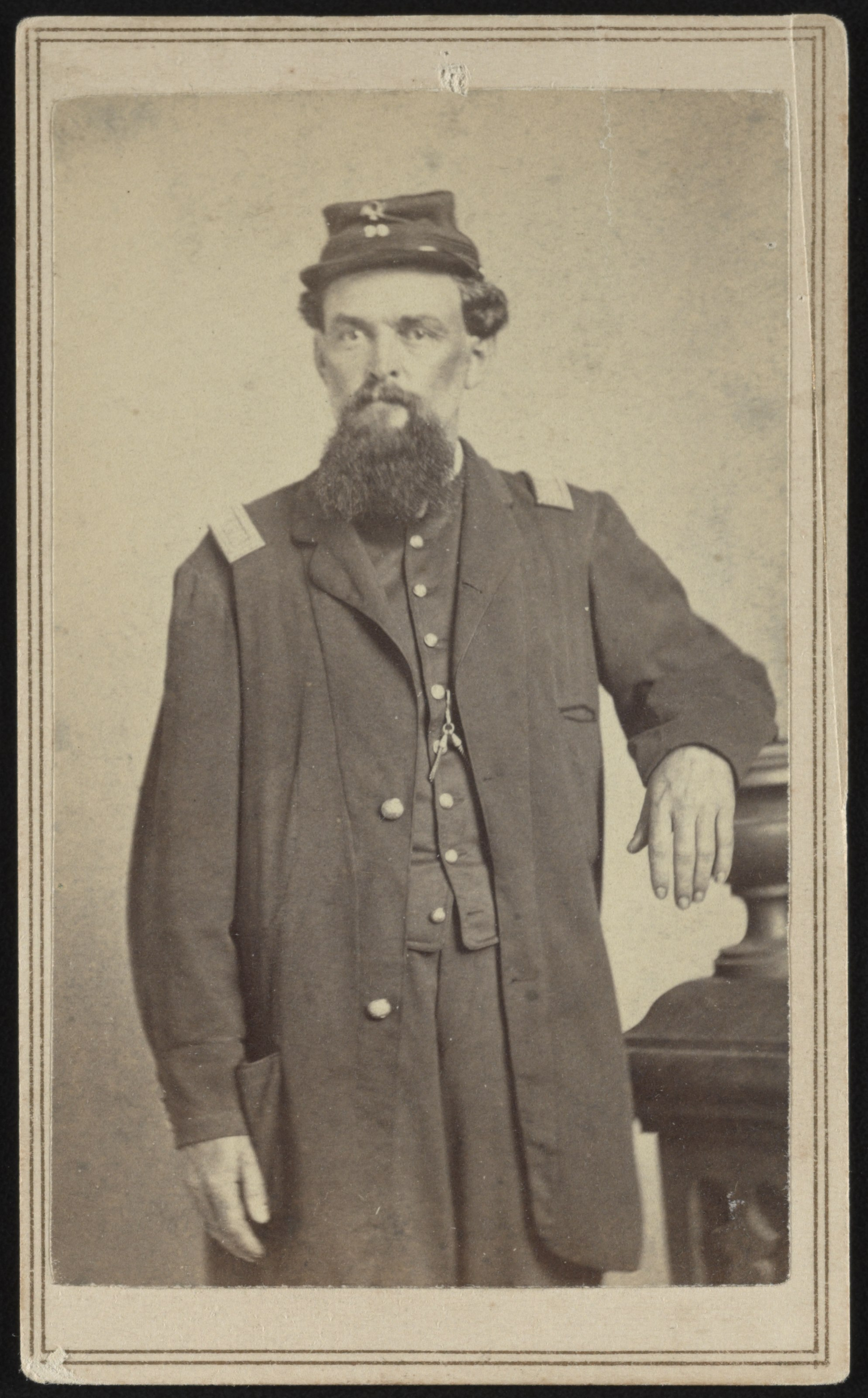 Title: Captain Isaac G. Hodgen of Co. A, 99th Illinois Infantry Regiment in uniform] / Washburn, photographer, 113 Canal St., New-Orleans Abstract/medium: 1 photograph : albumen print on card mount ; mount 10 x 6 cm (carte de visite format)